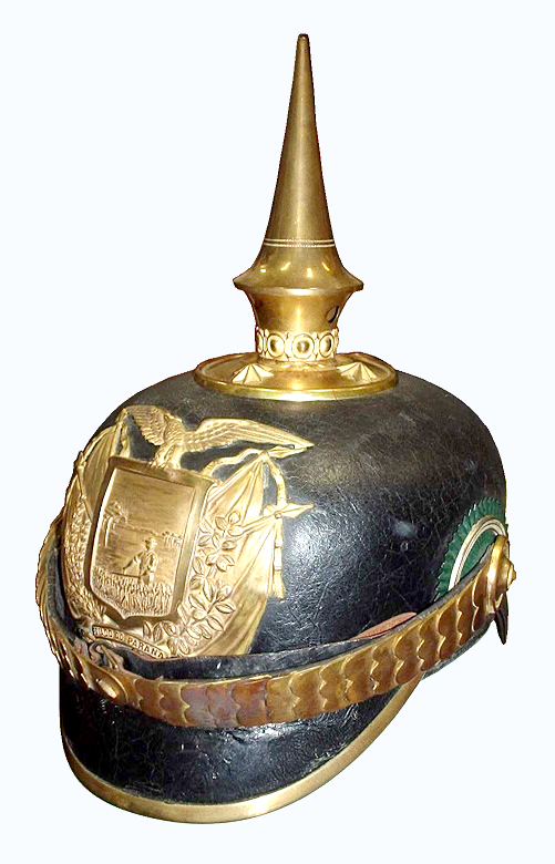 Pickelhaube of Military Police of Parana State, Brazil - 1913 a 1917.